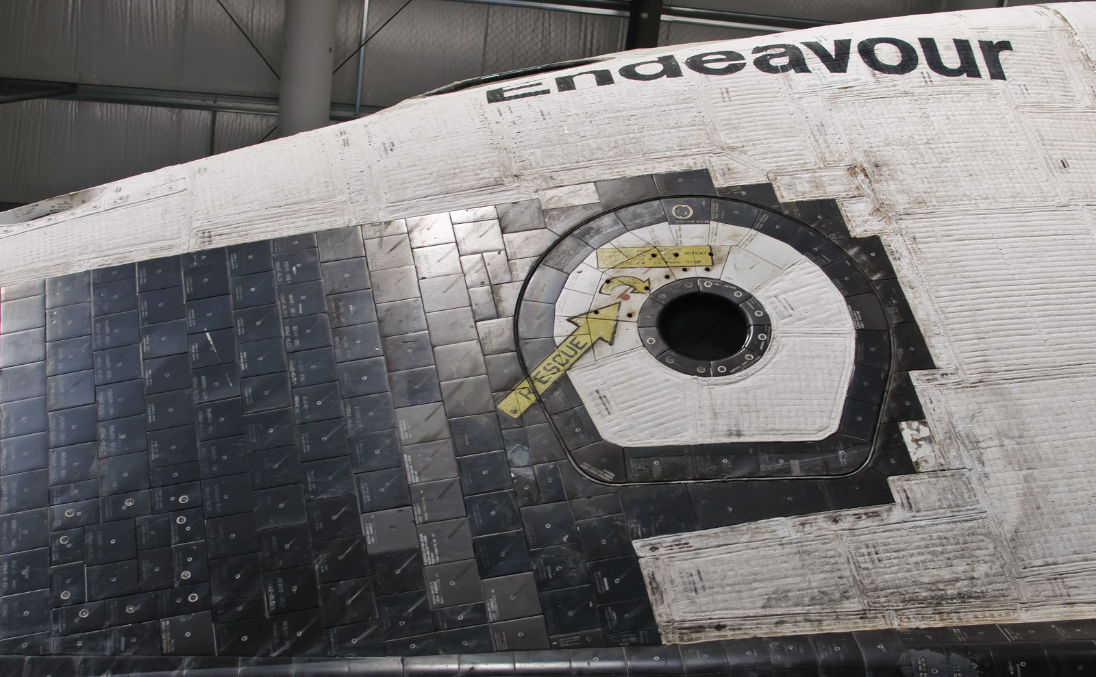 Retired in May 2011, Space Shuttle Endeavour was ferried to Los Angeles on 21 September 2012, moved through city streets from the airport to Exposition Park on 12-14 October 2012, and put on display on 30 October 2012. After having seen the moves a few weeks earlier, I am visiting Endeavour again, on the second full day of the exhibit, Halloween. Endeavour will be kept in this temporary exhibit space, Samuel Oschin Pavilion, until 2017, when the permanent Samuel Oschin Air & Space Center is planned to open, and Endeavour is to be displayed there in the launch configuration complete with boosters and external fuel tank. Details of the crew hatch area. The hatch leads directly to the mid-deck where most of the crew worked and lived while in space. The interior cabins were built strictly for in-space use, and not capable of handling visitors, so the condition for displaying the Shuttle strictly stipulates that visitors are not allowed to touch or enter the Shuttle. Also a good look at the black carbon-fiber tiles and the white insulation pieces protecting the Shuttle. Endeavour, built in 1987-1991 as a replacement for the destroyed Challenger, was the only Shuttle to be named by elementary and secondary school students in a nationwide competition. Like other Space Shuttles, Endeavour is named after a historical ship: HMS Endeavour, which was Captain James Cook's ship in 1768-1771. Because of the British namesake, Endeavour's name is spelled in the British manner, rather than the American "Endeavor." Another American spaceship was named Endeavour - the command module of Apollo 15, also named after HMS Endeavour.